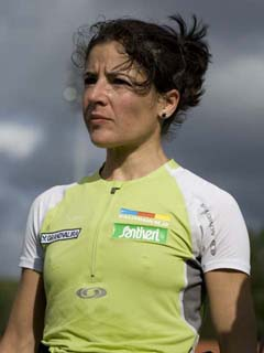 Stephanie Jimenez, 2008 Ben Nevis Race